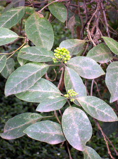 Clerodendrum tomentosum at Denistone, NSW, Australia